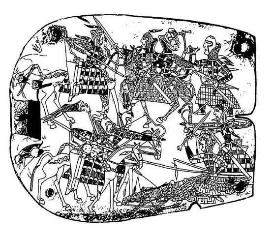 The battle scene depicted on one of the bone plaques from the cemetery of Orlat (Uzbekistan). Orlat plaques